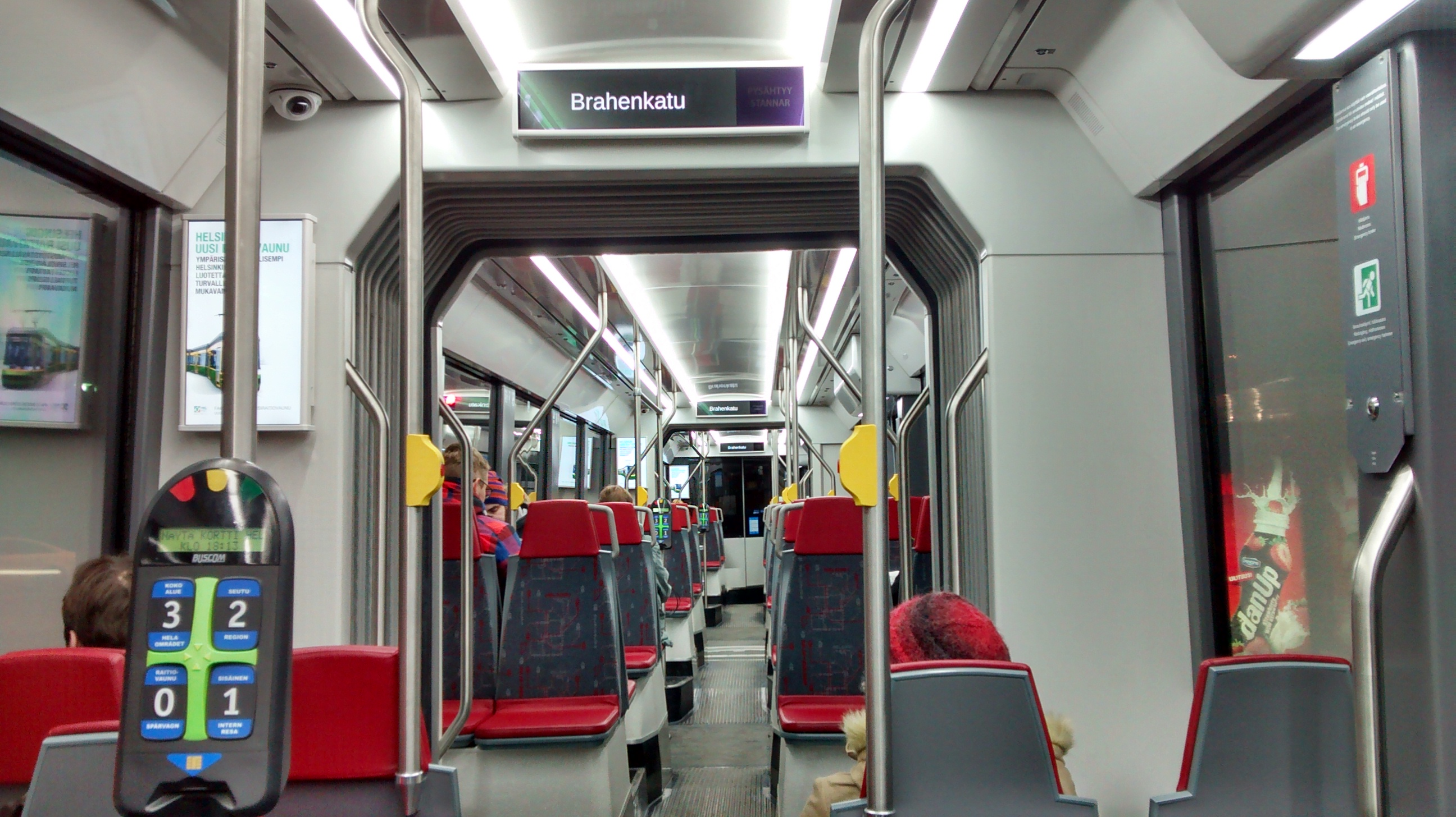 Inside the Artic tram in Helsinki, Finland.